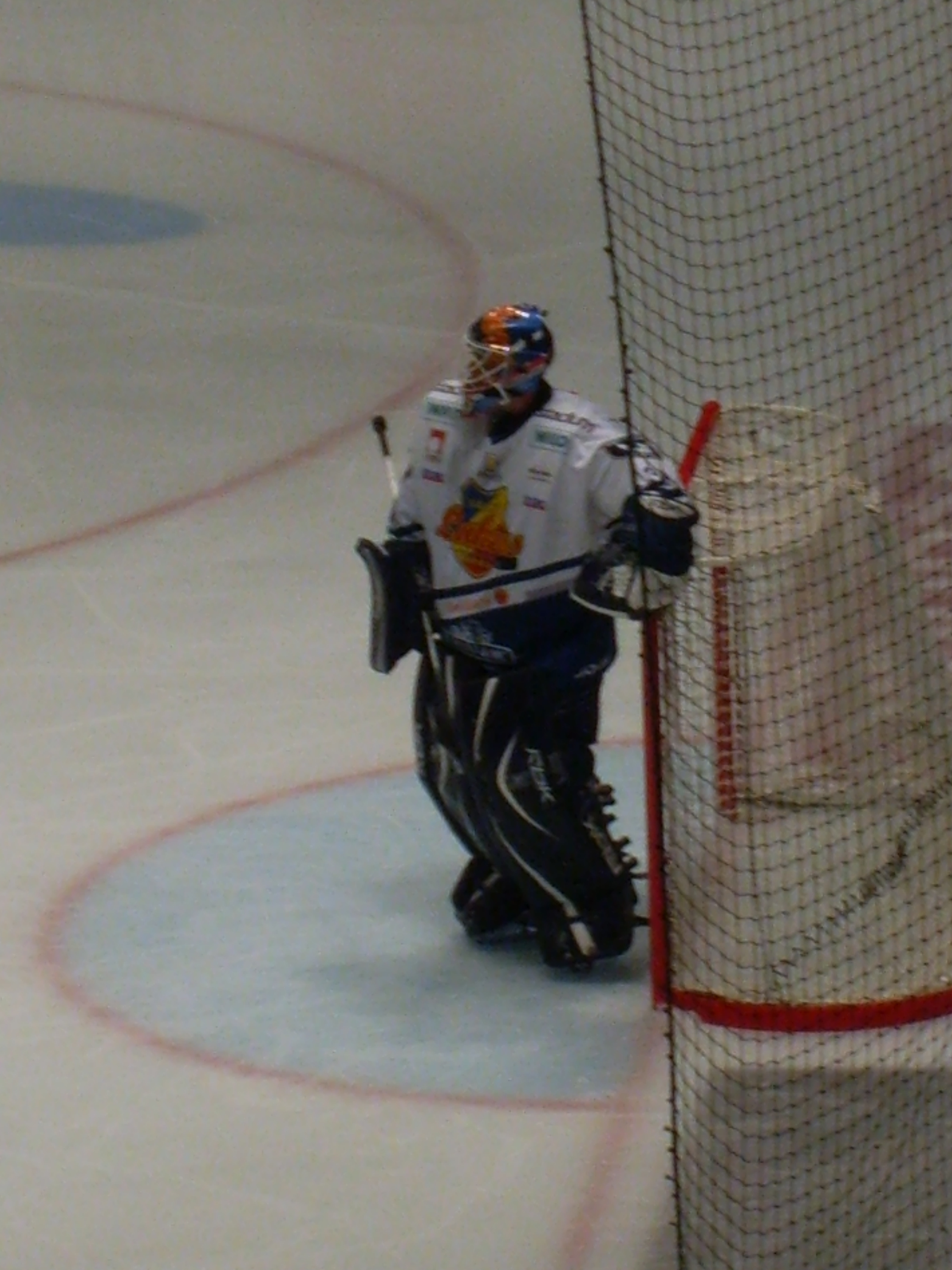 Viktor Fasth, goaltender in Växjö Lakers HC from Sweden